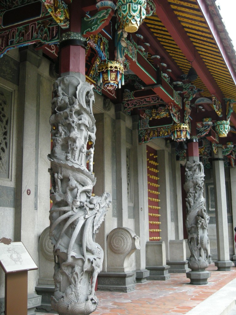 Lingxing Gate, Confucius Temple, Taipei